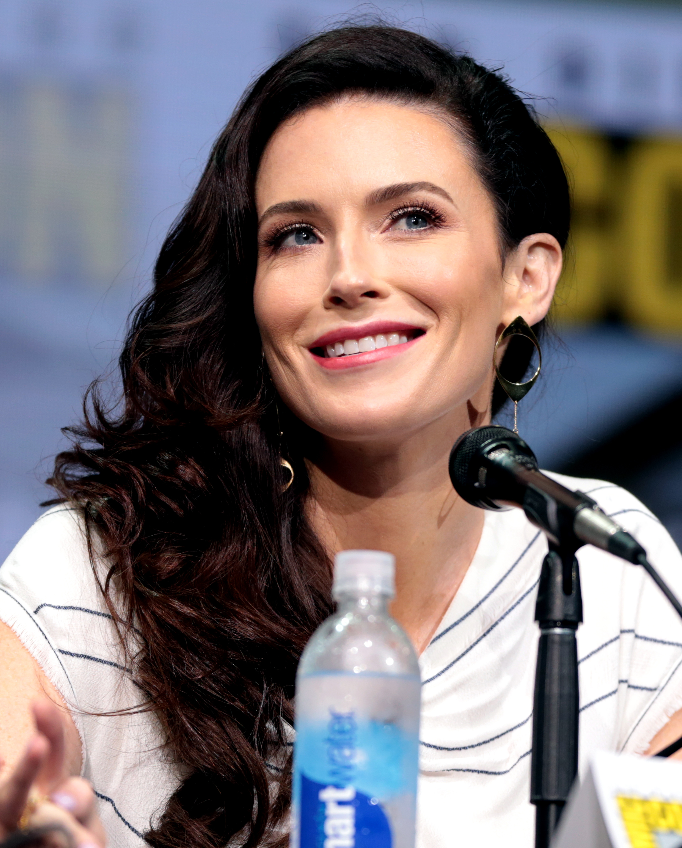 Bridget Regan speaking at the 2017 San Diego Comic Con International, for "The Last Ship", at the San Diego Convention Center in San Diego, California.